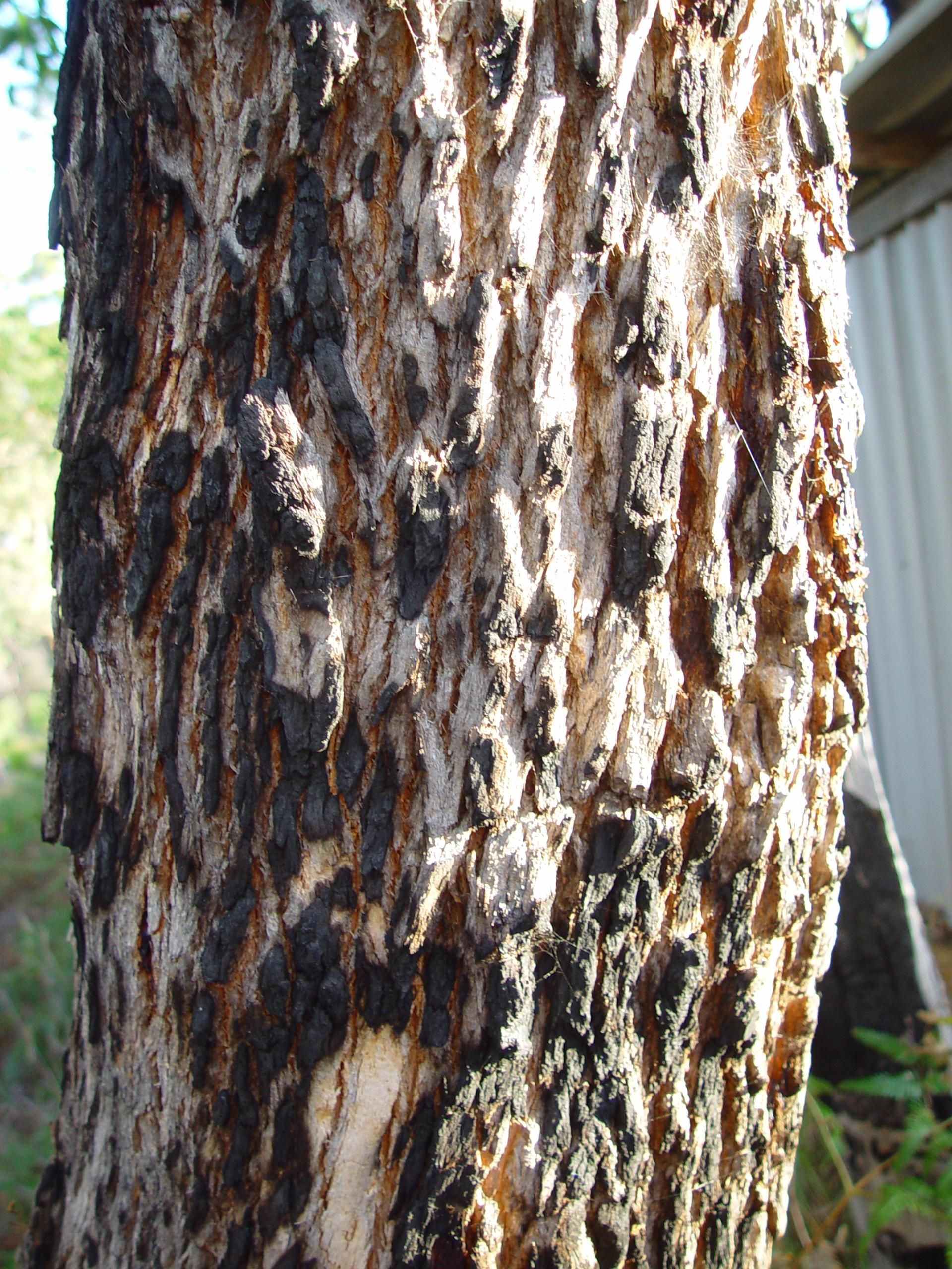 Image title: Redgum bark Image from Public domain images website